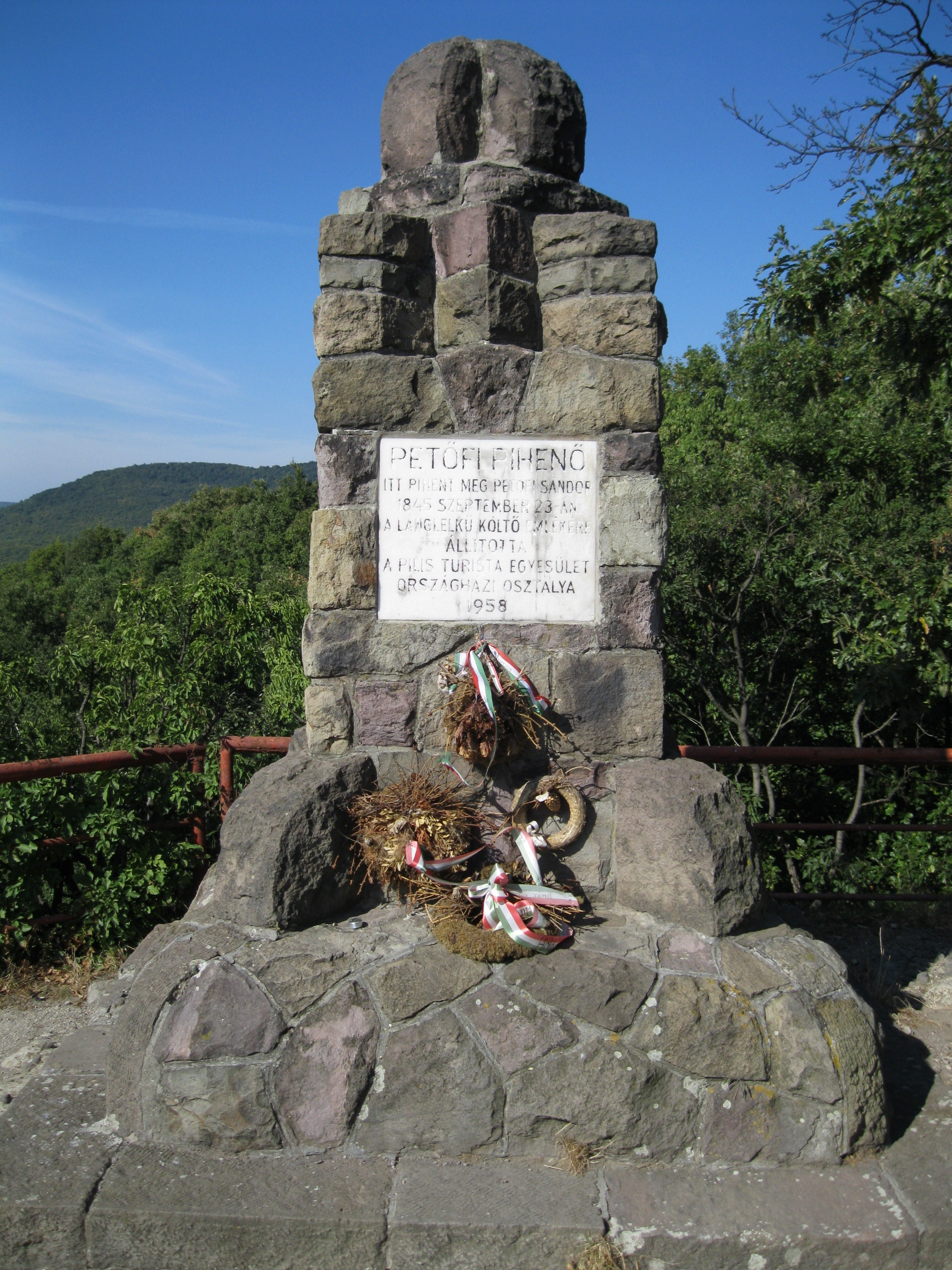 Sándor Petőfi memorial in Pomáz, Hungary